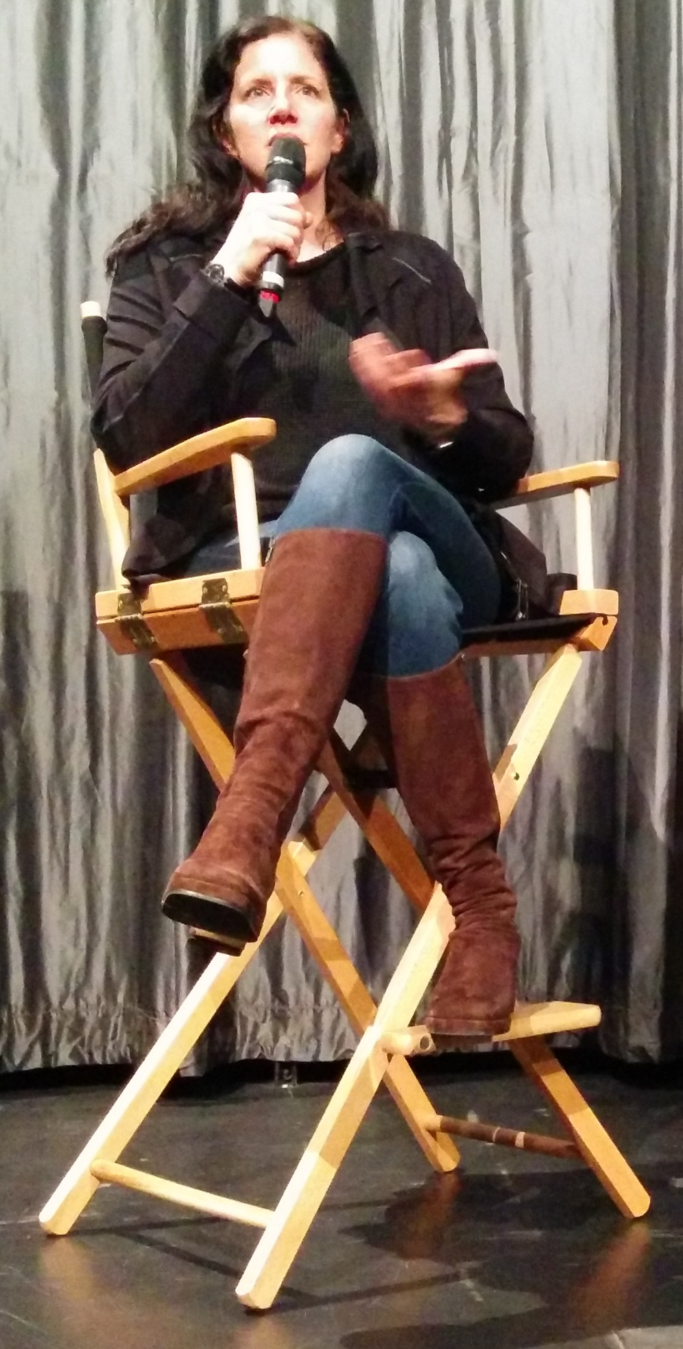 Laura Poitras introducing her film CITIZENFOUR about Edward Snowden at the IFC Center in NYC.